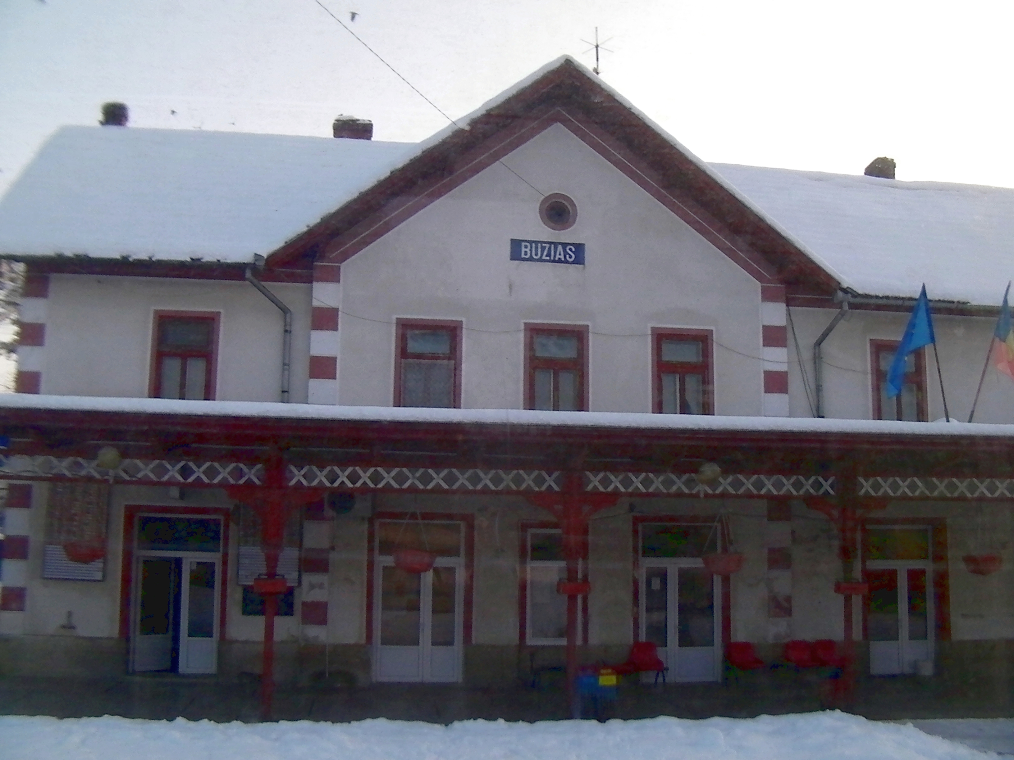 Photo taken at 4:35 pm local time of the train station in Buziaş, Romania